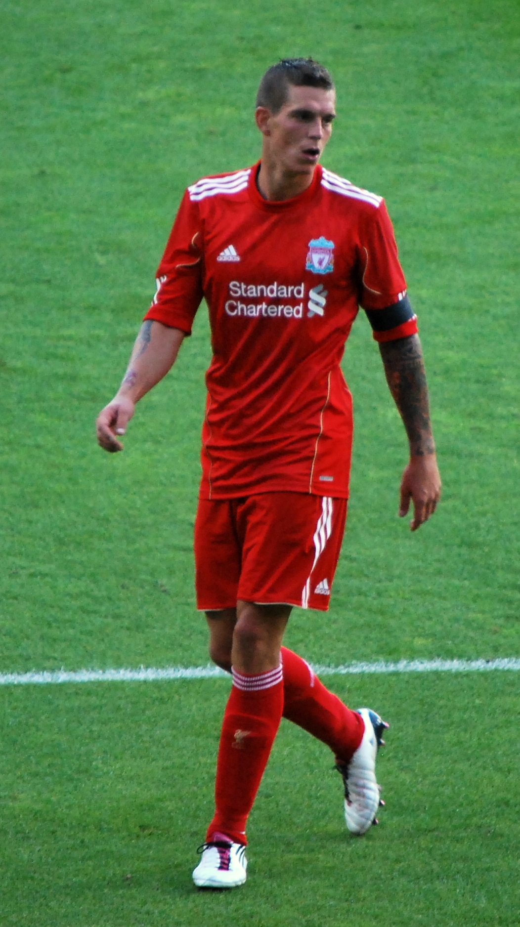 Daniel Agger during pre-season friendly Vålerenga v. Liverpool on 1st August 2011 at Ullevål. Result: 3-3.